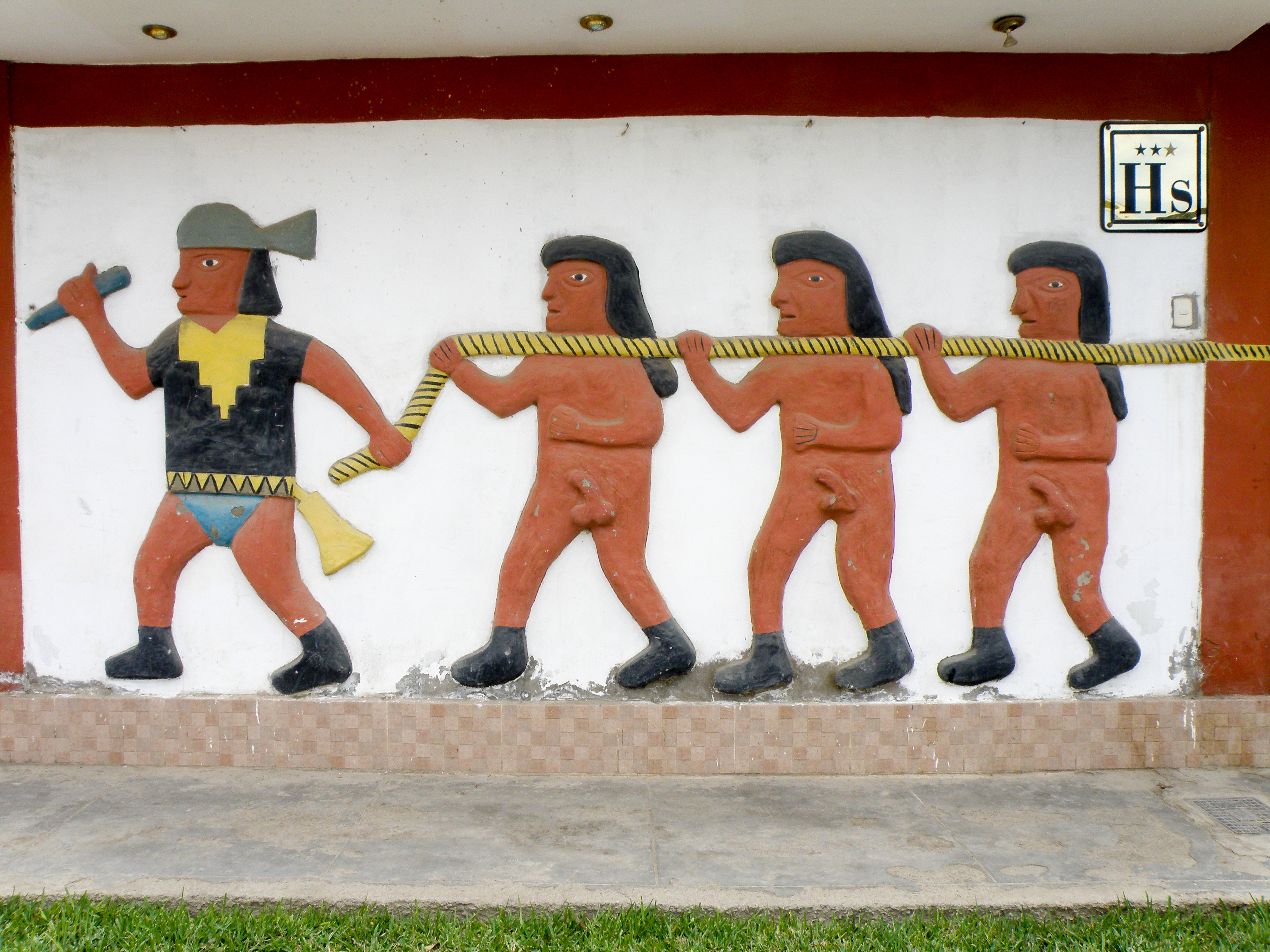 El Brujo is one of the most important archeological sites at the northern coast in Peru, north of Trujillo. It was an important center of the Moche civilisation.